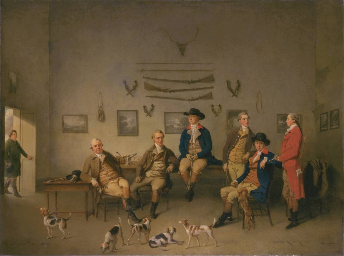 "Members of the Carrow Abbey Hunt" 1780, by the English painter Philip Reinagle. Oil on canvas, 1170 mm x 1550 mm x 33 mm. Courtesy of the collection of the Tate Britain, London.